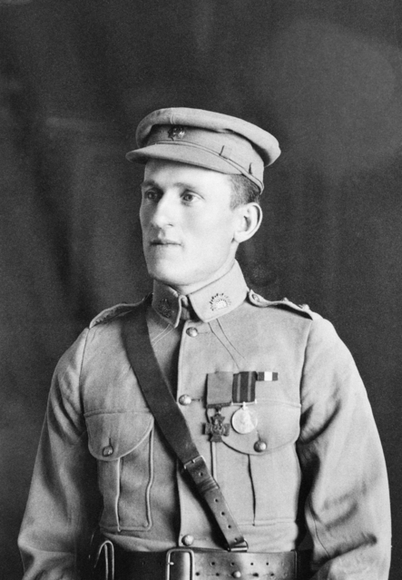 Photo of Victoria Cross recipient James Rogers, an Australian who served with the South African Constabulary during the Second Boer War